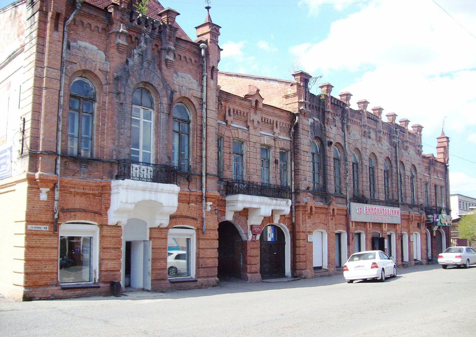 Merchant Vinokurov's house